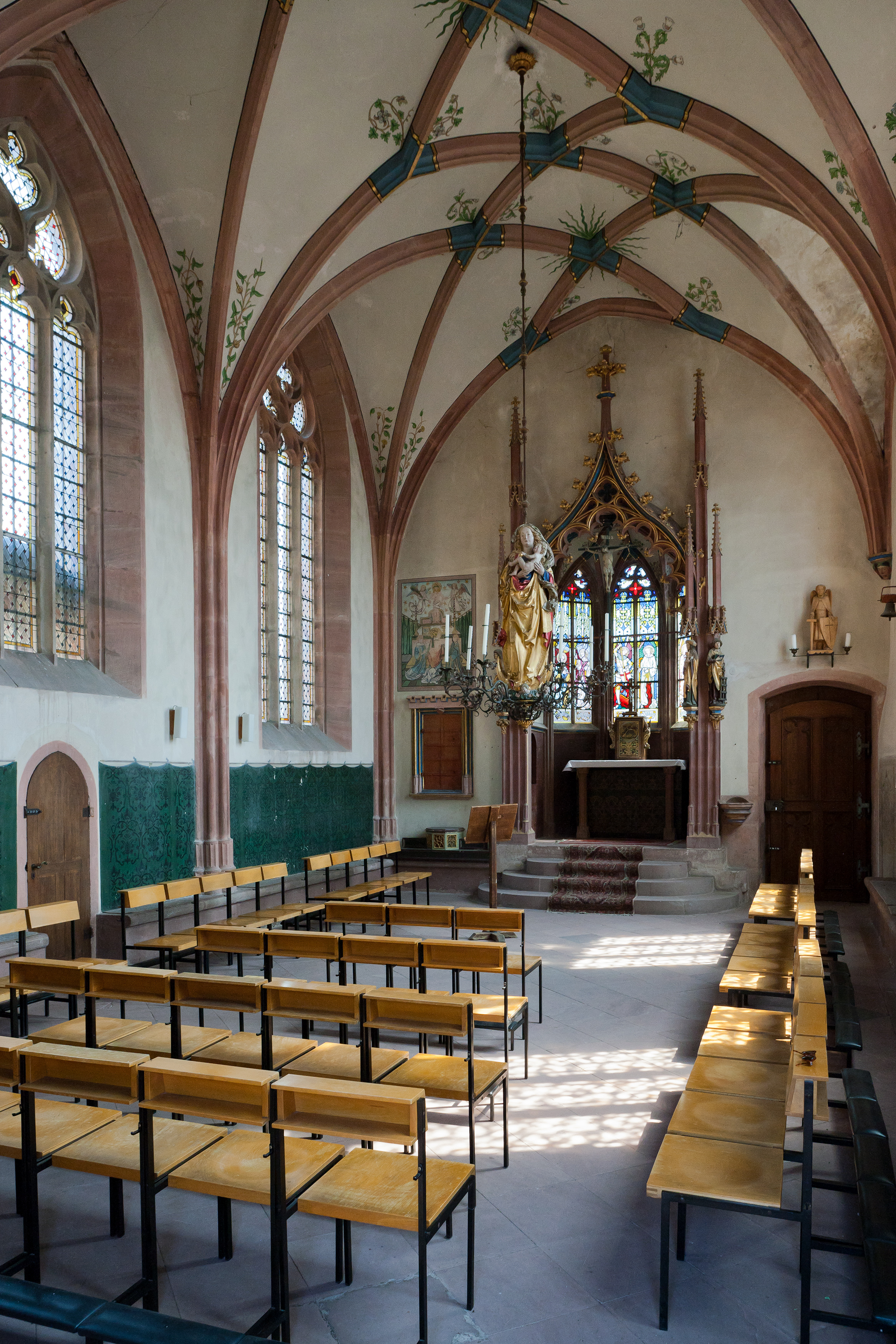 Kiedrich: Michaelskapelle (St. Michael's Chapel), interior of the chapel as seen from the southwest